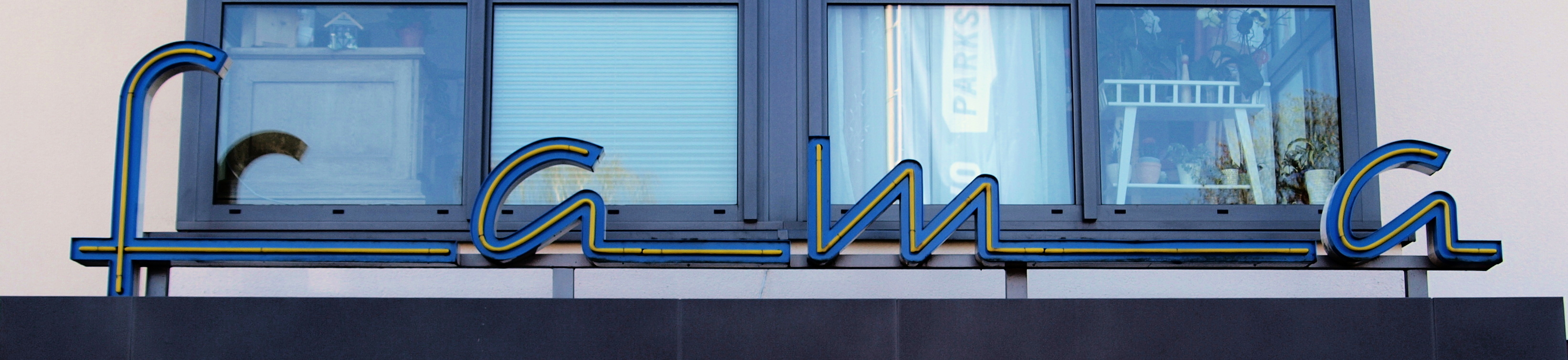 Neon neon sign of the former cinema Fama Filmtheater from the 1960s. Now above the entrance of the senior residence Wohnpart FAMA, Luruper Hauptstraße 247, 22547 Hamburg Germany